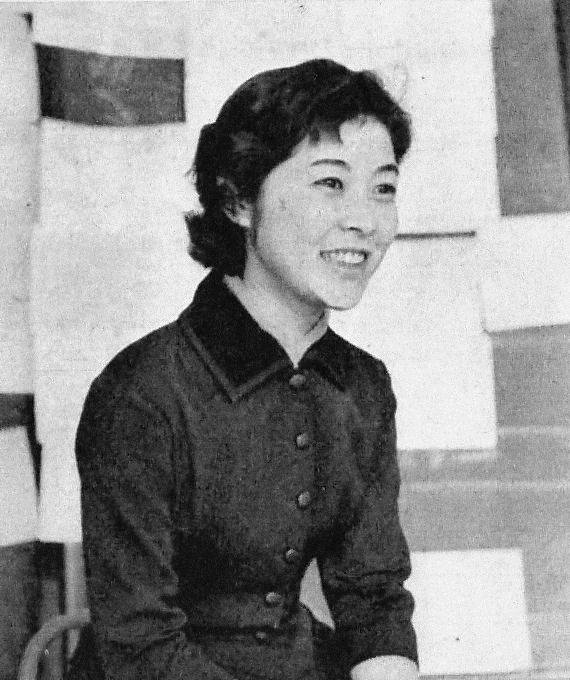 Hiroko Koda